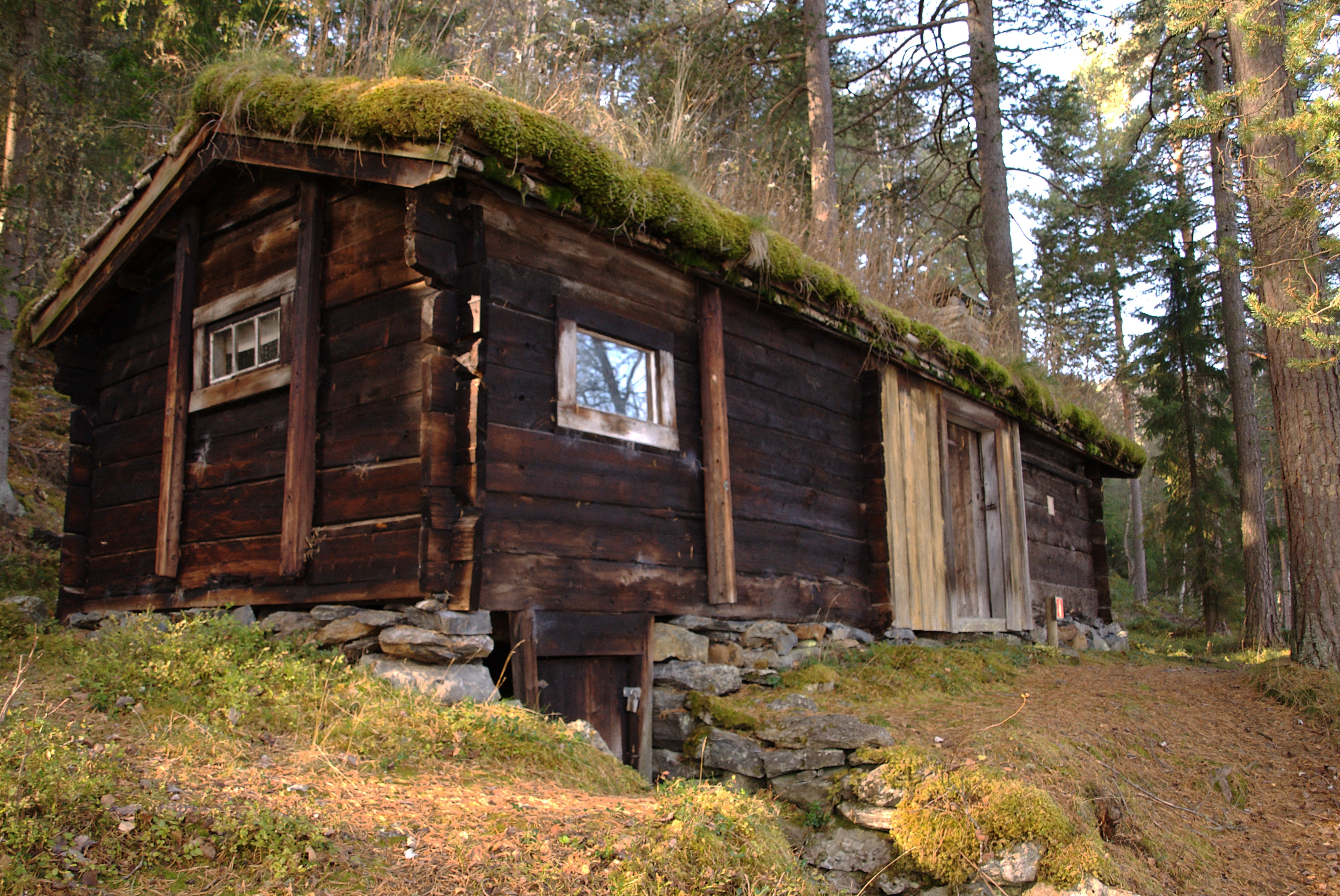 Fisherman's cabin from Haldorsynøyn at Valdres Folkemuseum on Storøya outside Fagernes in Nord-Aurdal.